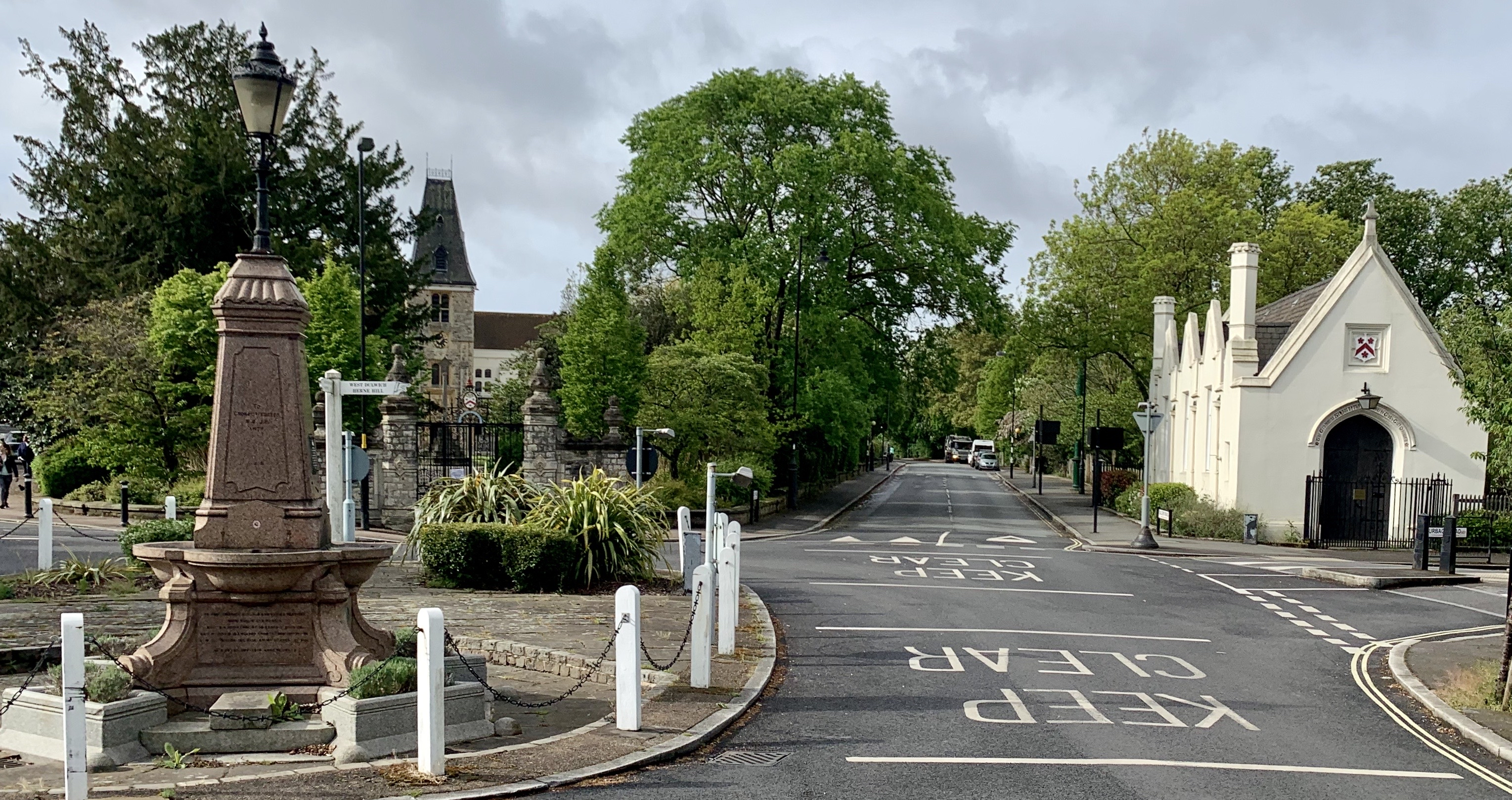 College of God’s Gift, Dr Webster’s Fountain and Old Grammar School, Dulwich